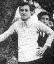 Emilio Bolinches